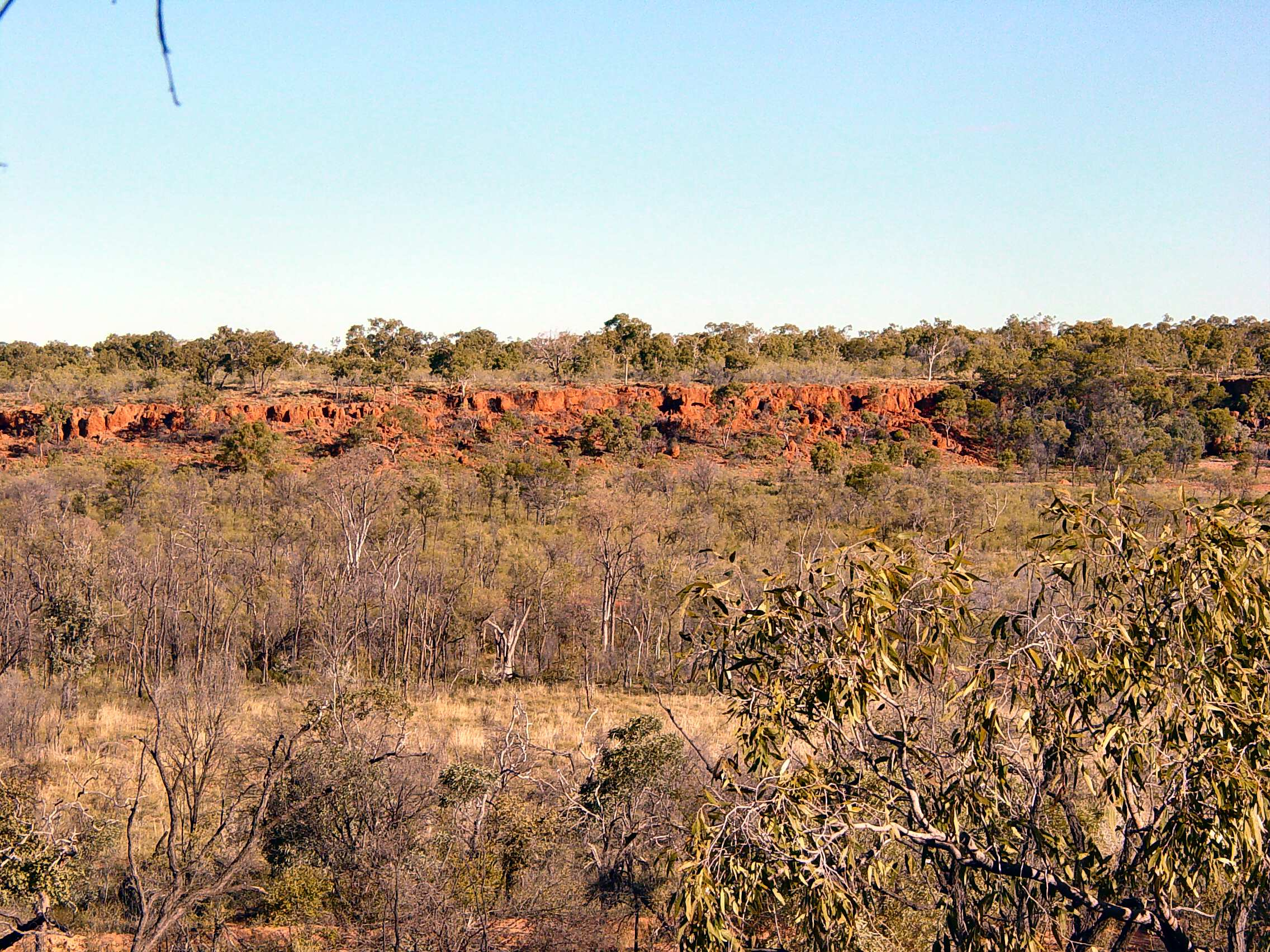 Mailman's Gorge, near Aramac. Looking towards the site of the massacre of about 25 aborigines.